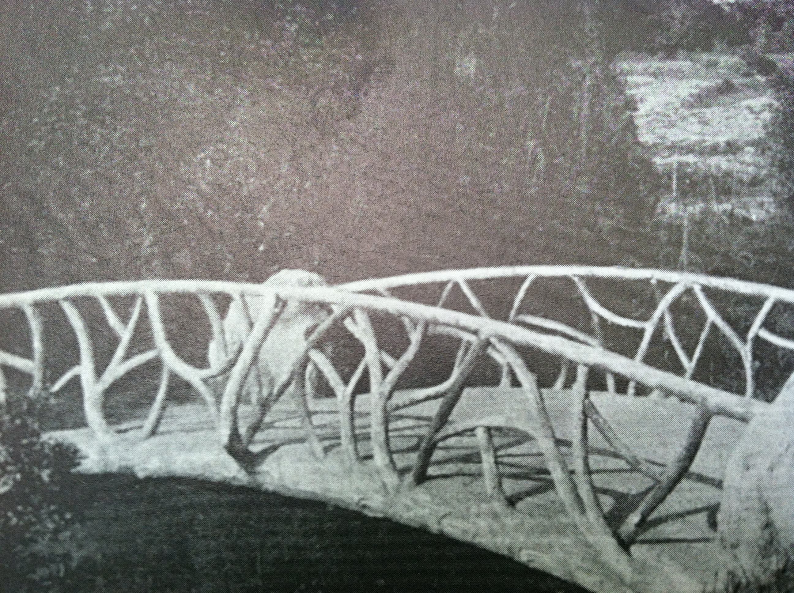 One of the bridges that used to cross the North Lake in Golden Gate Park. It was removed in order to protect birds at the Lake. I'm not completely sure about the publisher date, so if anyone has any information, please let me know.